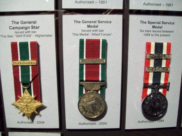 Image of the Canadian (Canada) General Campaign Star ; The Canadian (Canada) General Service Medal ; The Canadian (Canada) Special Service Medal at the Royal Canadian Regiment Museum in London Ontario. This image is released under copyleft.